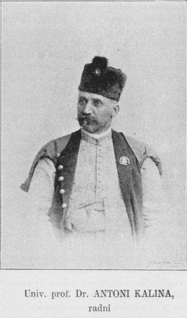 Portrait of Antoni Kalina (1846-1906), Polish slavist, professor of Lviv University and member of Lviv city administration.